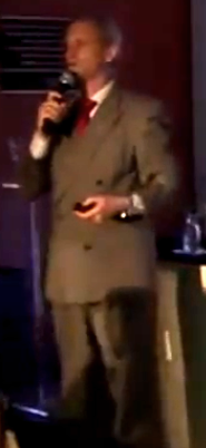 Brazilian palaeontologist Alexander W. A. Kellner speaking at a conference in the Academia Brasileira de Ciências (Brazilian Academy of Sciences).